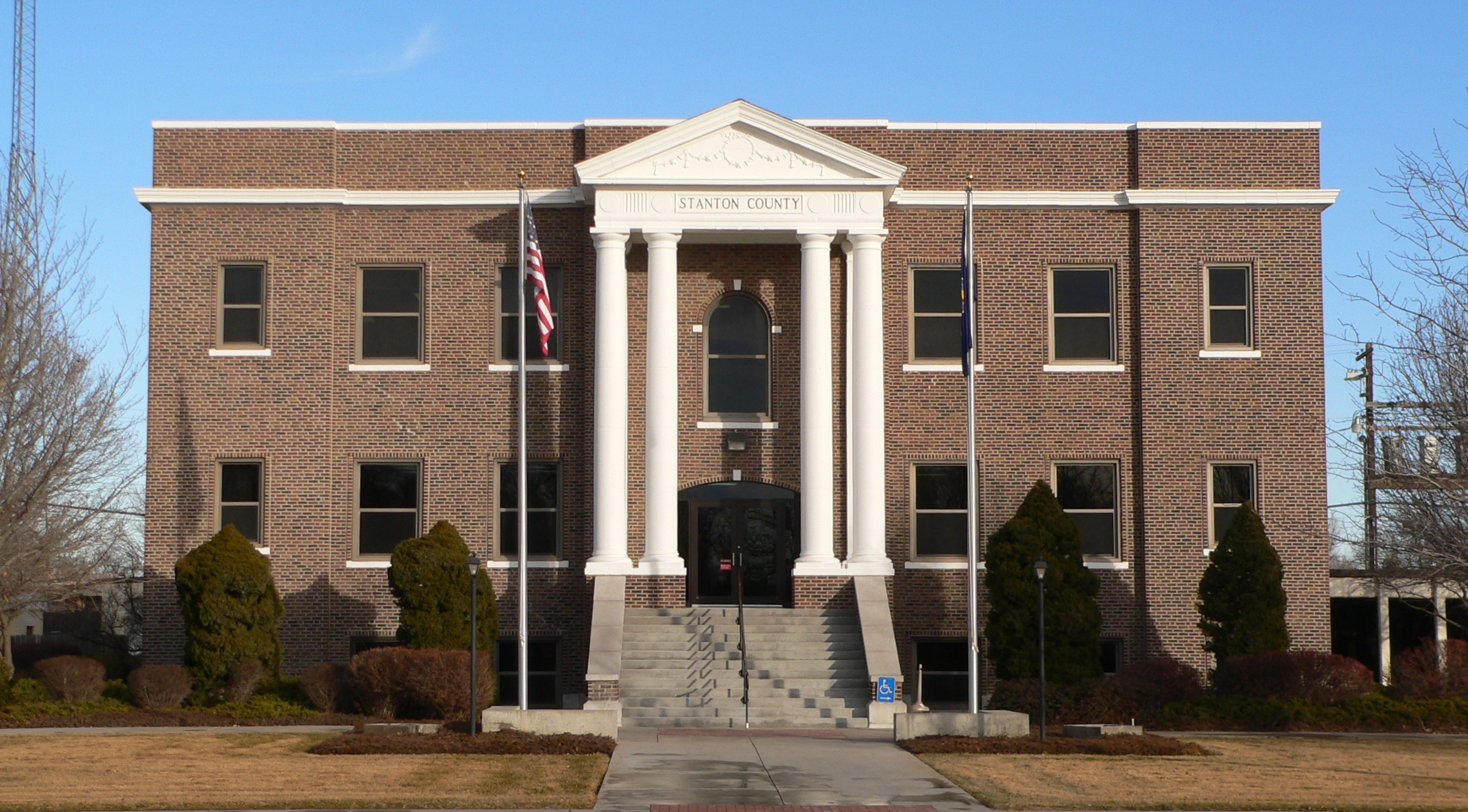 Stanton County Courthouse in Johnson City, Kansas; seen from the west. The building was constructed in 1925.